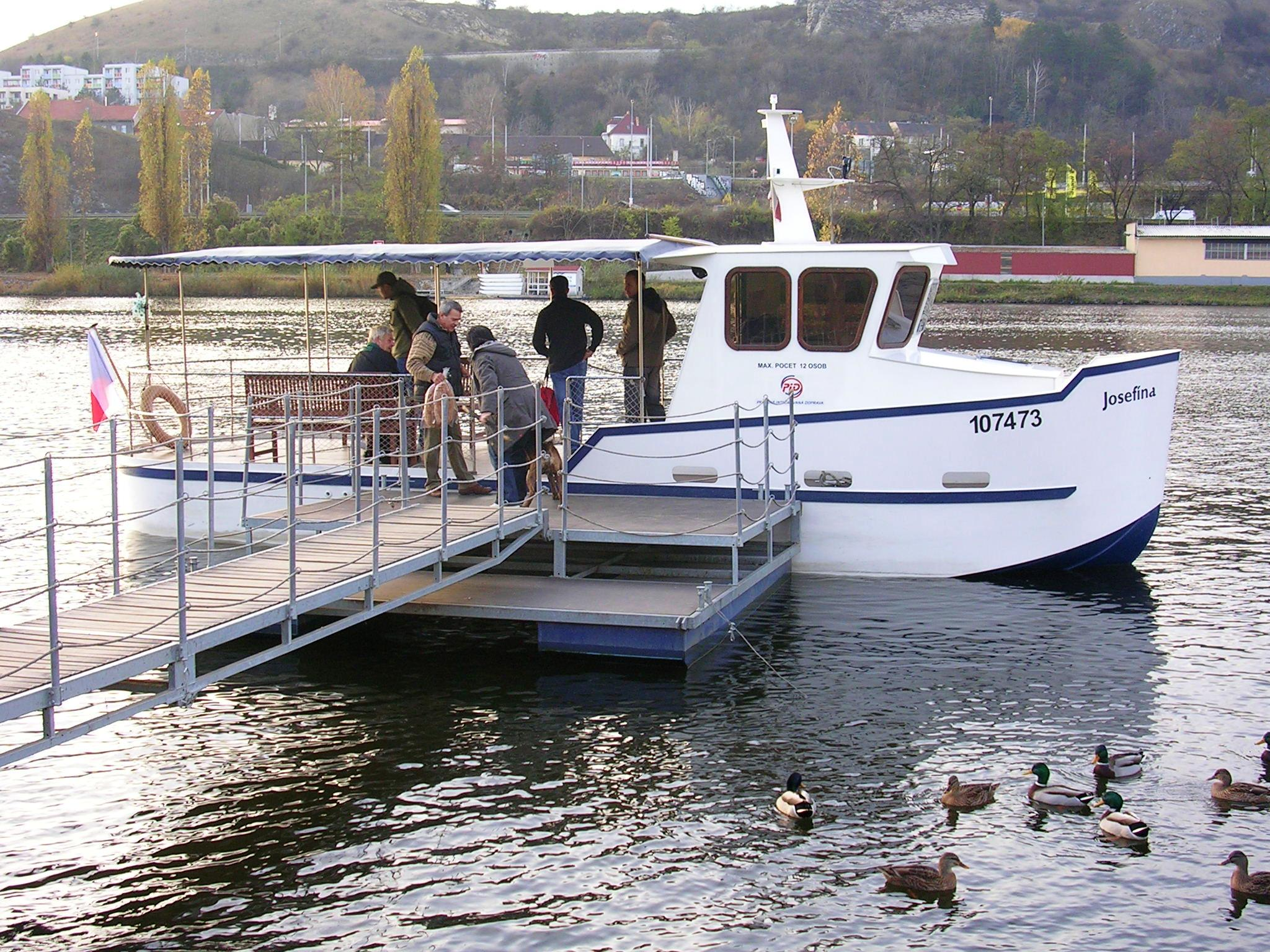 Podolí, Prague. Ferry station.